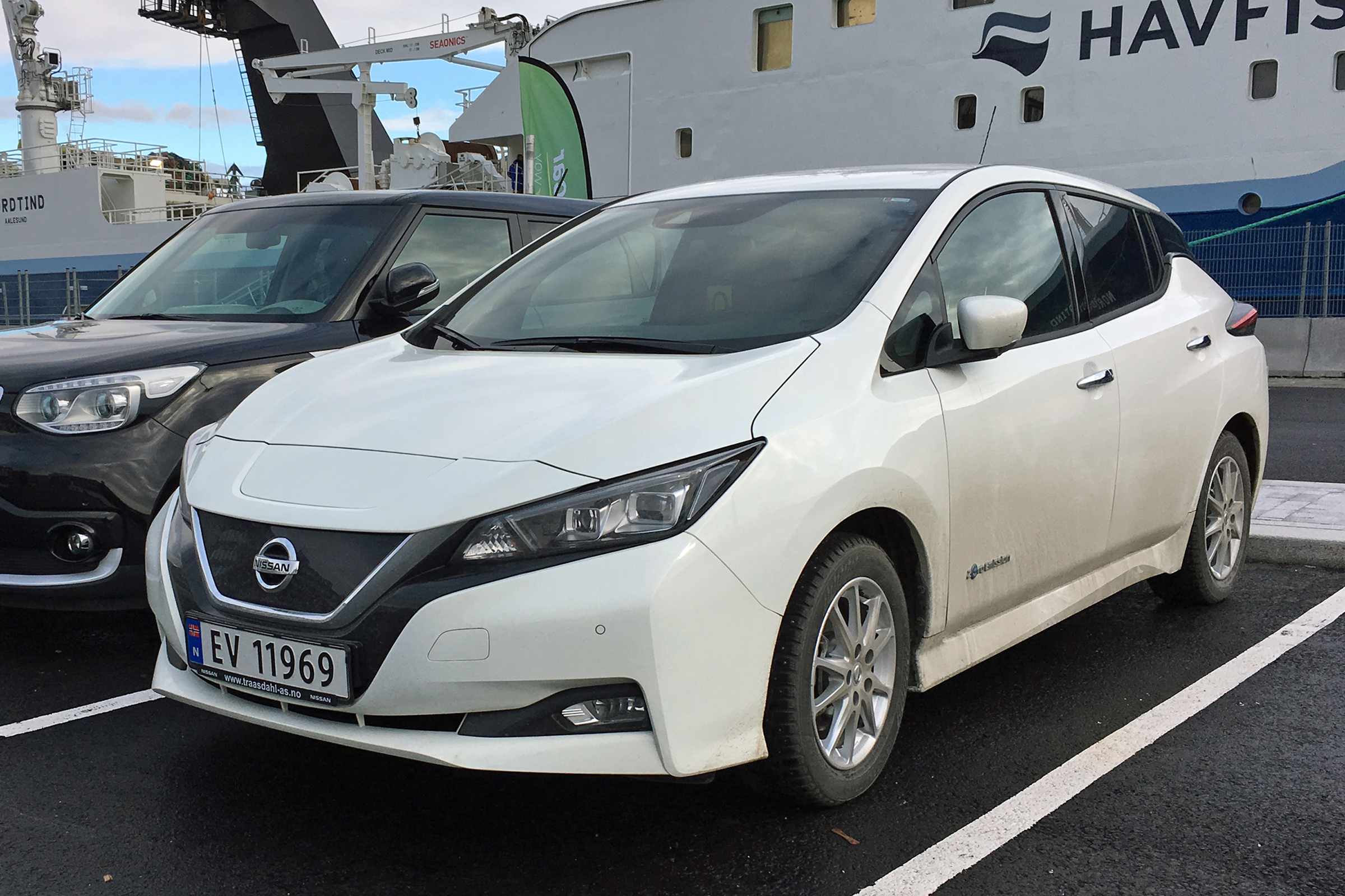 Second generation Nissan Leaf in Tromso, Norway.